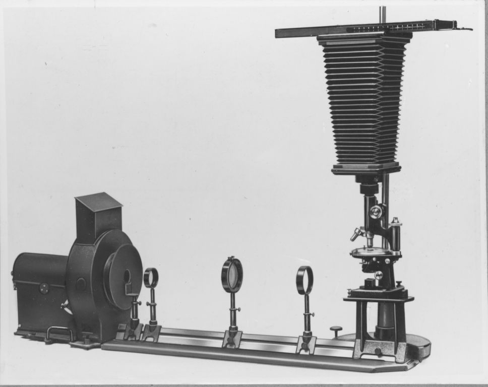 The 1908 Zeiss test setup for fluorescence microscopy by August Köhler and Henry Siedentopf.